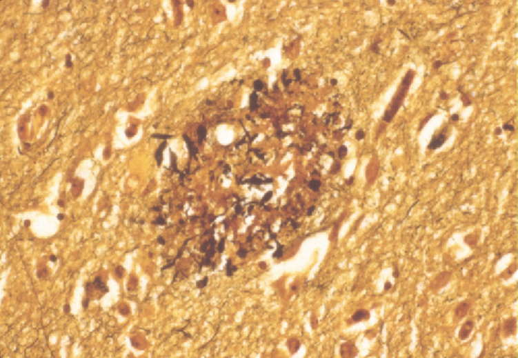 An AD Plaque